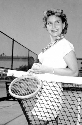 This is a publicity photograph for Eve McVeagh for CBS Radio from 1952. There is no photographer credited nor copyright obtained.